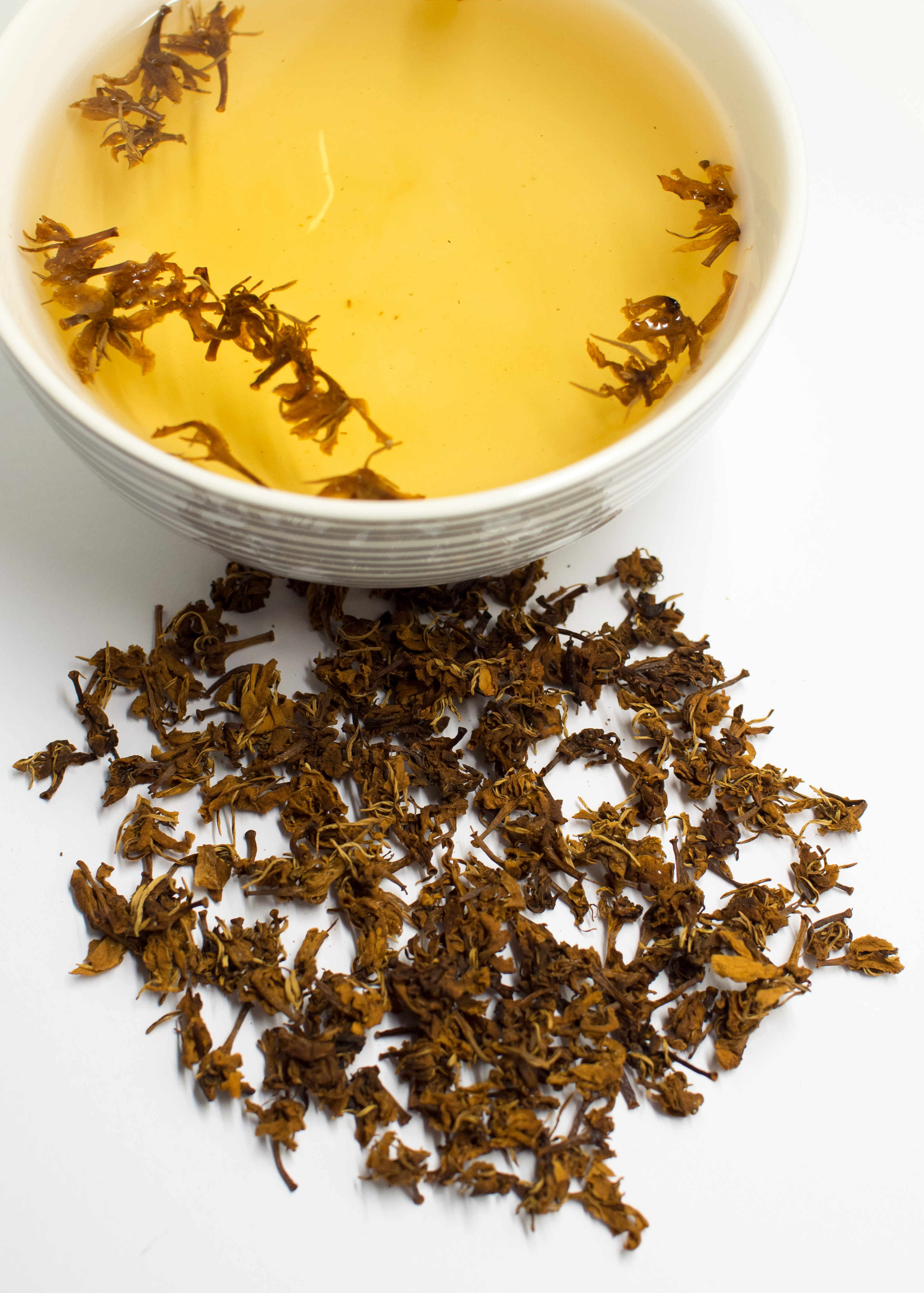 A coffee blossom tea/tisane made from dried and slightly roasted arabica coffee blossoms from Akha Ama Coffee, Chiang Mai, Thailand